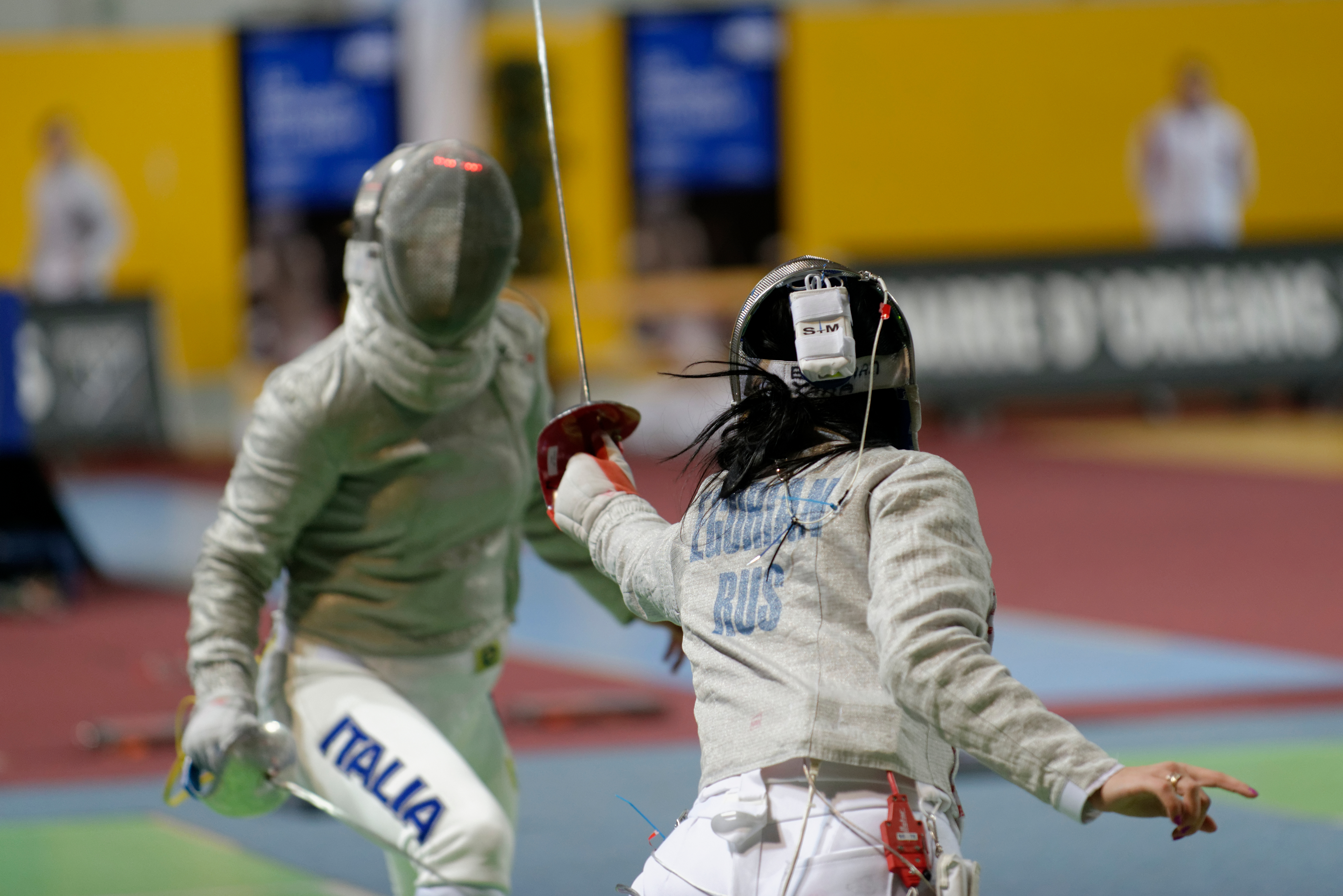 Yana Egorian of Russia (viewed from behind) fences against Italy's Irene Vecchi (front view) in the table of 32 at the Trophée BNP Paribas-Grand Prix FIE, first stage of the women's sabre World Cup, in Orléans.